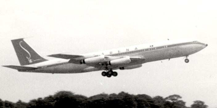 Boeing 707-329, reg.nr. OO-SJA of Sabena in February 1961 with original short tail fin and no dorsal fillet. Sistership OO-SJB crashed and caught fire on February 15, 1961 while approaching Zaventem airport near Brussels. The flight came from New York Idlewild and was operated as SN548. All passengers including american art skating team, entire crew and a farmer on the ground died. The entire cockpit section of OO-SJA is preserved in the Aviation museum in Brussels